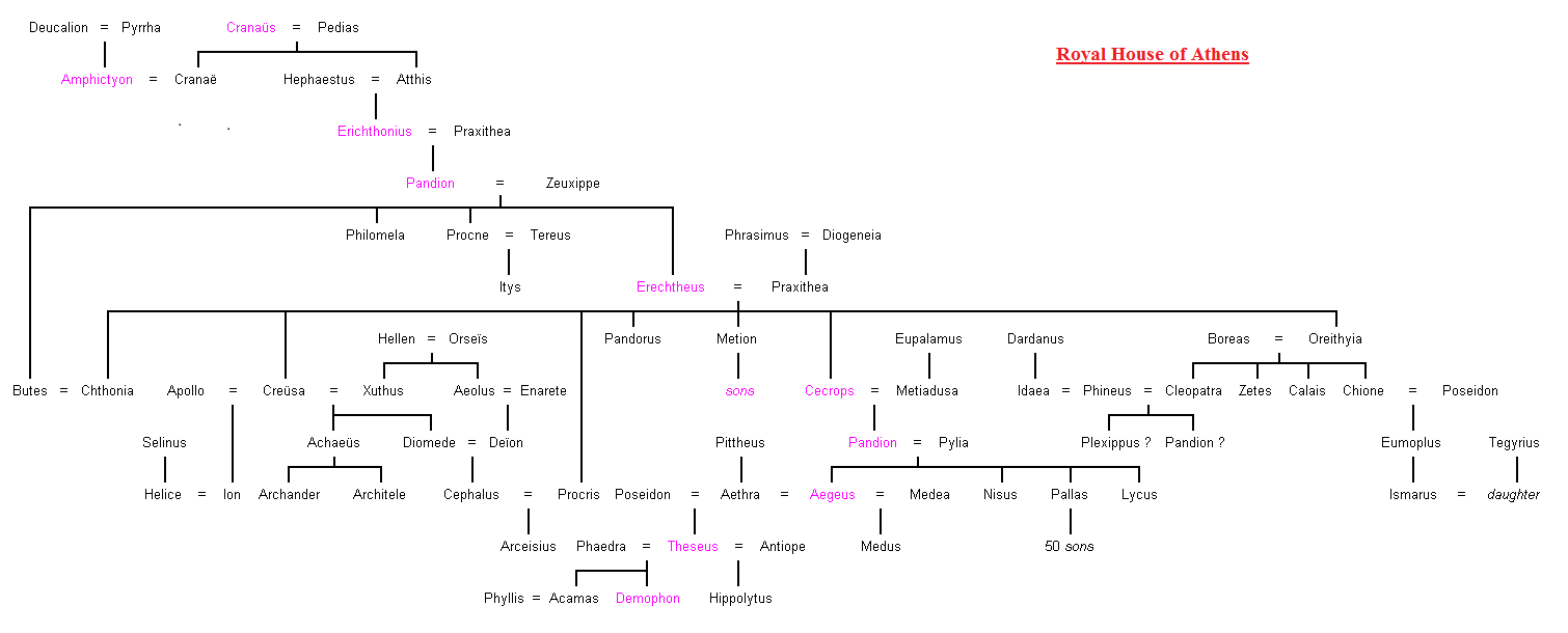 Mythological Royal House of Athens Genealogical Chart/Family Tree. from Mythology: Timeless Tales of Gods and Heroes,by Edith Hamilton (1942)